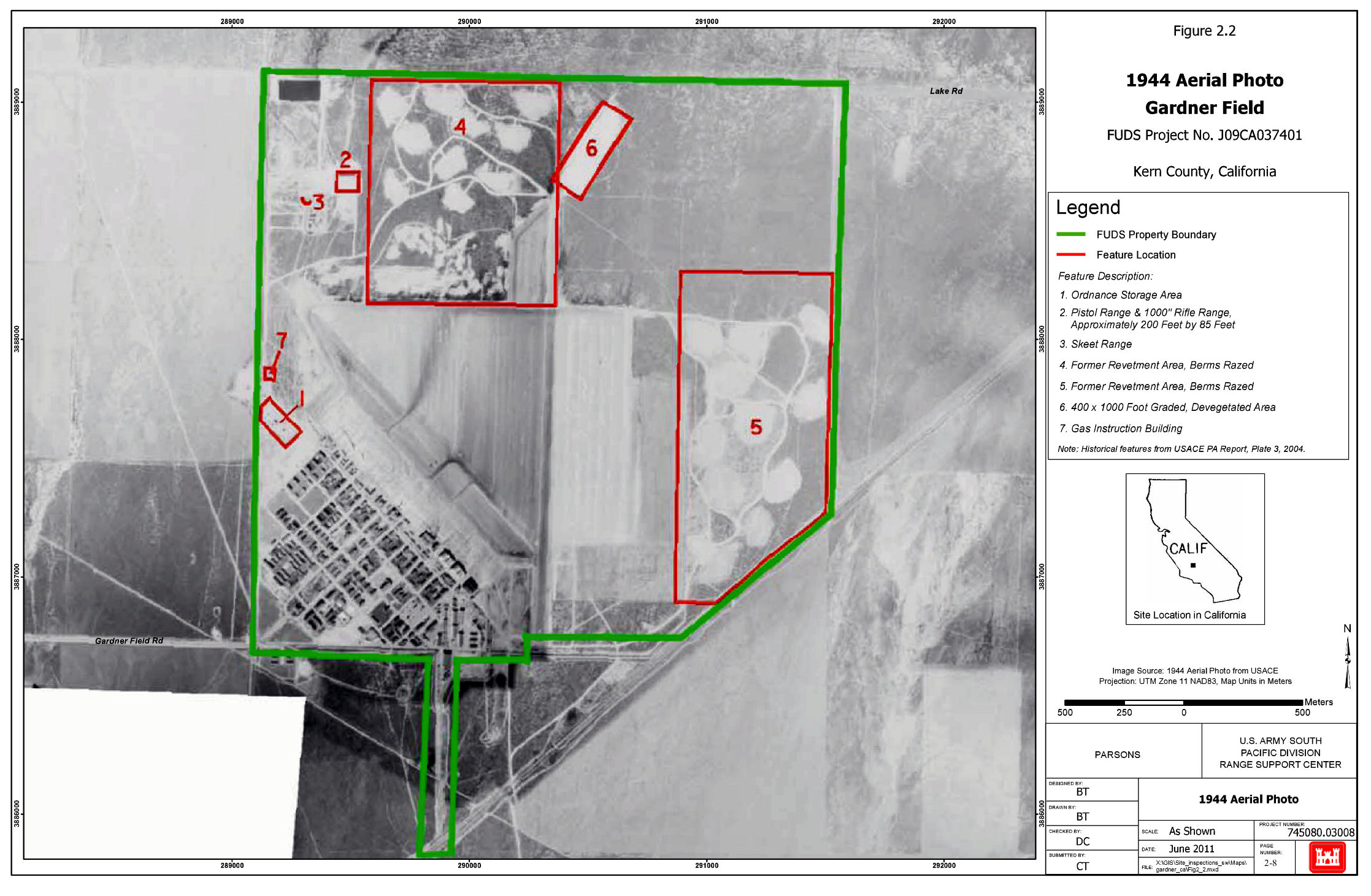 Gardner Field CA 1944 ACOE